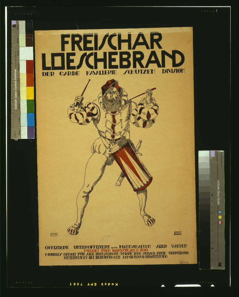 Title: Freischar Loeschebrand, der Garde Kavallerie Schützen Division. Offiziere, Unteroffiziere und Mannschaften aller Waffen, meldet euch Abstract: Poster shows a Landesknecht soldier beating a drum. Text encourages officers and enlisted soldiers, familiar with all weapons, to join the Freischar Loeschebrand. Place of registration and benefits are listed. Physical description: 1 print (poster) : lithograph, color ; 71 x 48 cm. Notes: Title from item.; Helmuth Stockmann.